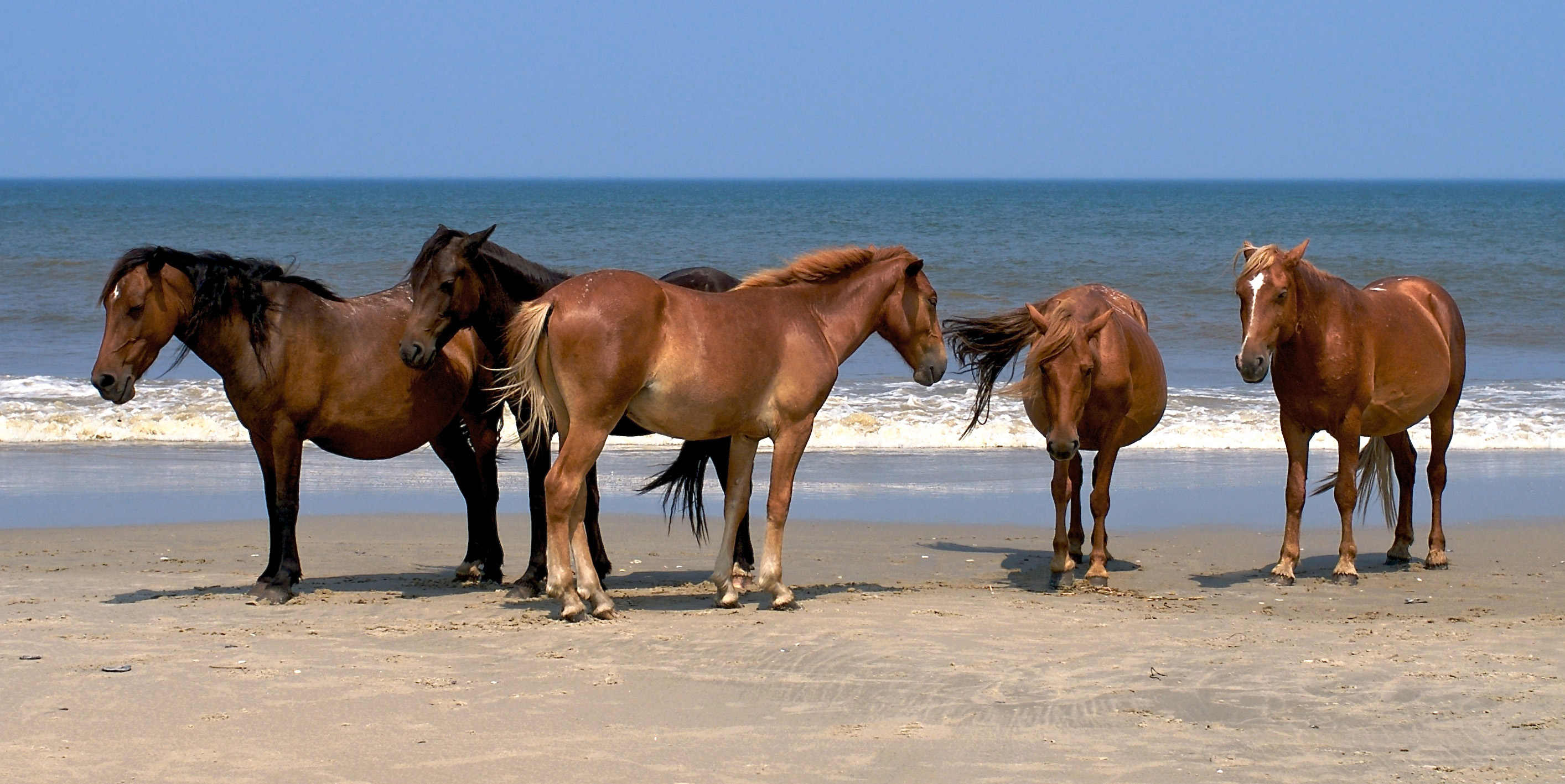 Five of the wild Spanish Mustangs in Corolla, North Carolina.